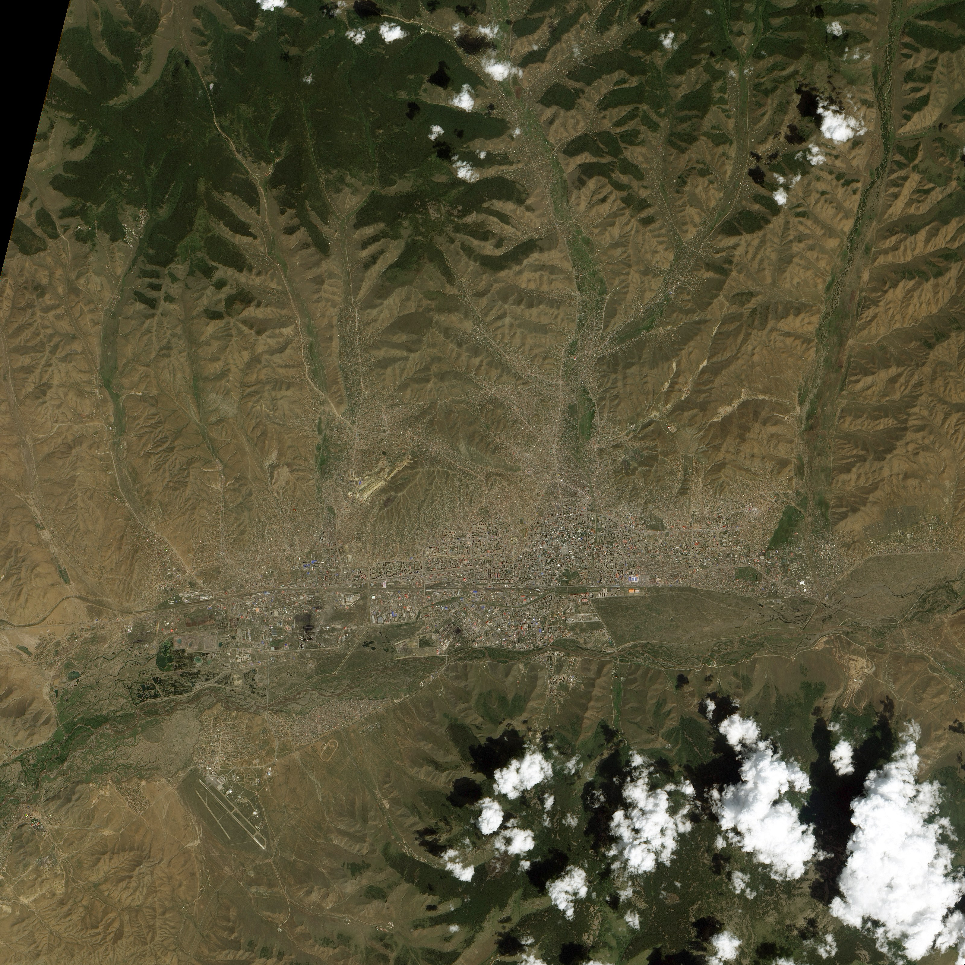 Ulan Bator city, capital of Mongolia, satellite image made with ALI sensor on EO-1 NASA satellite, 2009-07-23